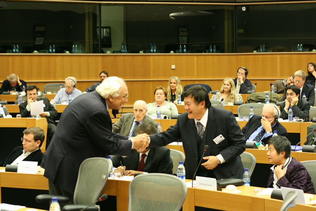 Marco Pannella with Wei Jingsheng, Chinese dissidents.